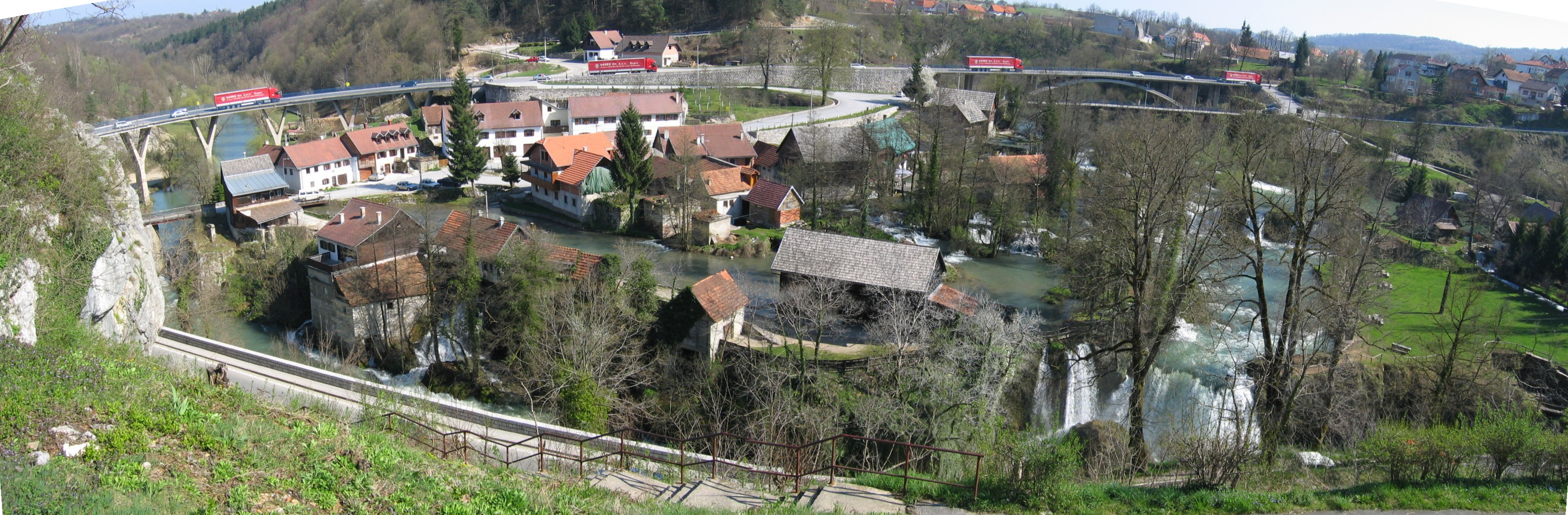 Rastoke, Slunj, Croatia. Panoramic view on Rastoke from the north. Picture taken in April 2006.